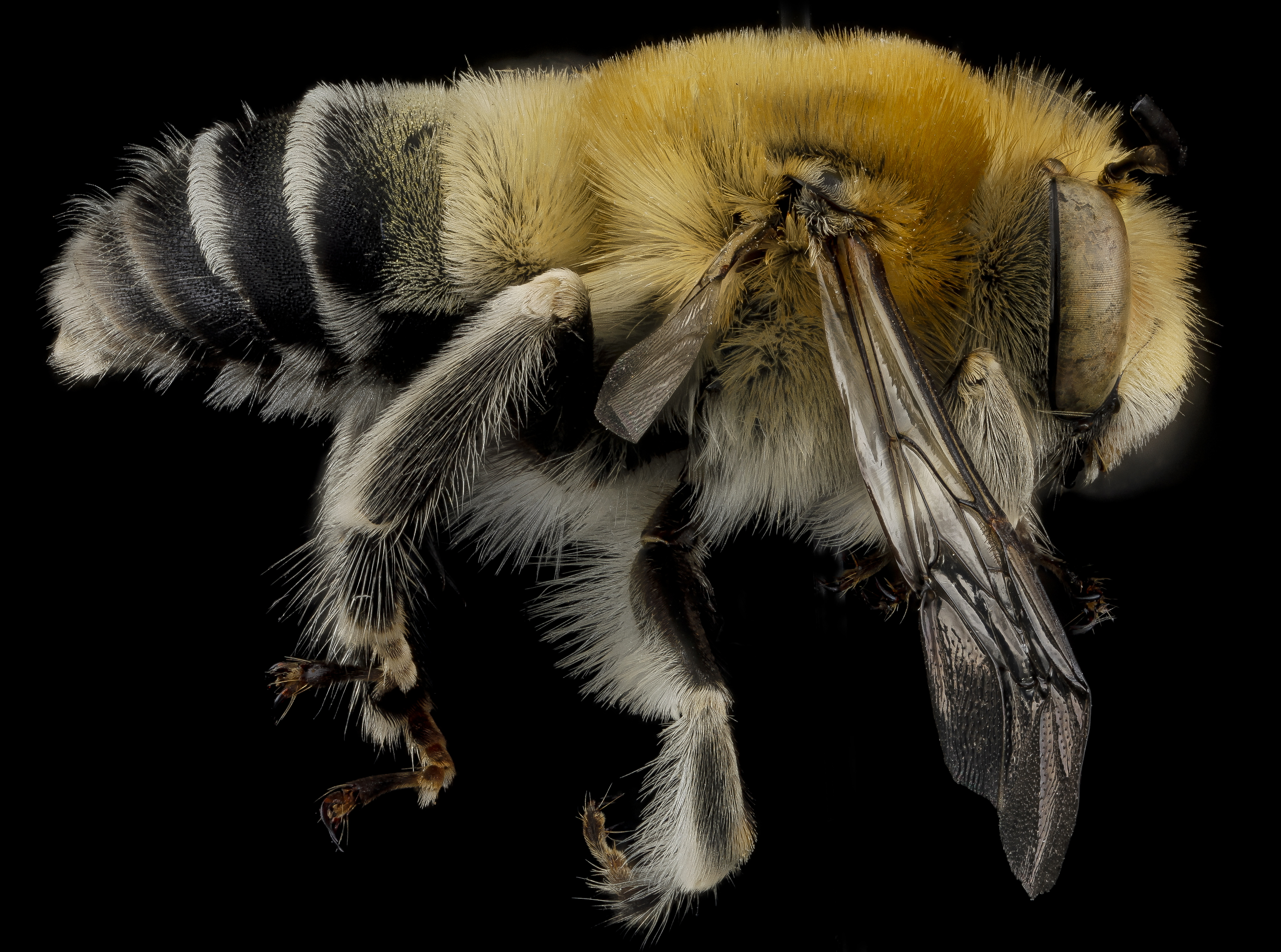 Anthophora affabilis, male, Badlands National Park, South Dakota